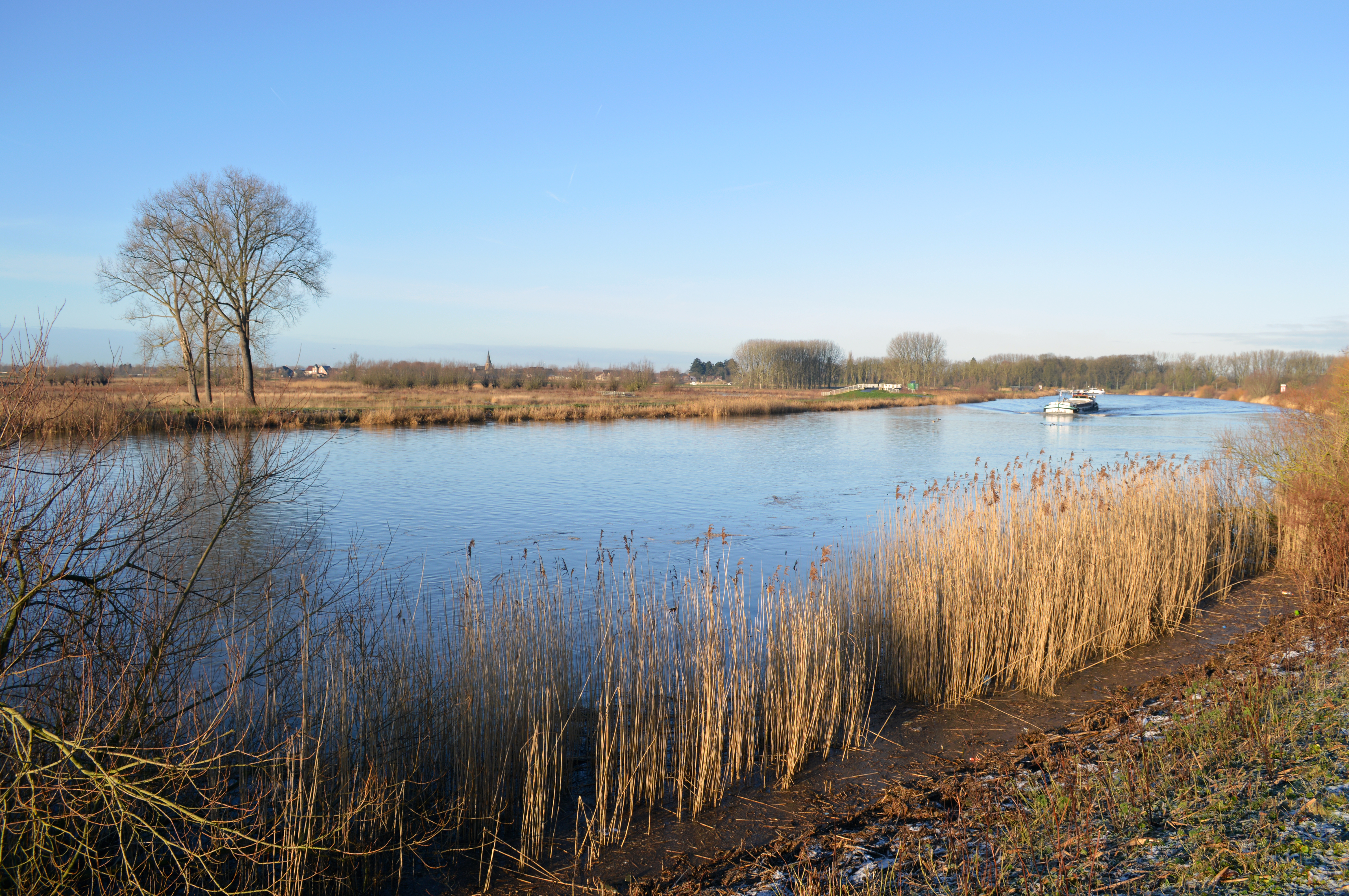 Nature reserves Bergenmeersen (left) and Paardeweide (right) on opposite sides of the River Scheldt in Wichelen and Berlare.